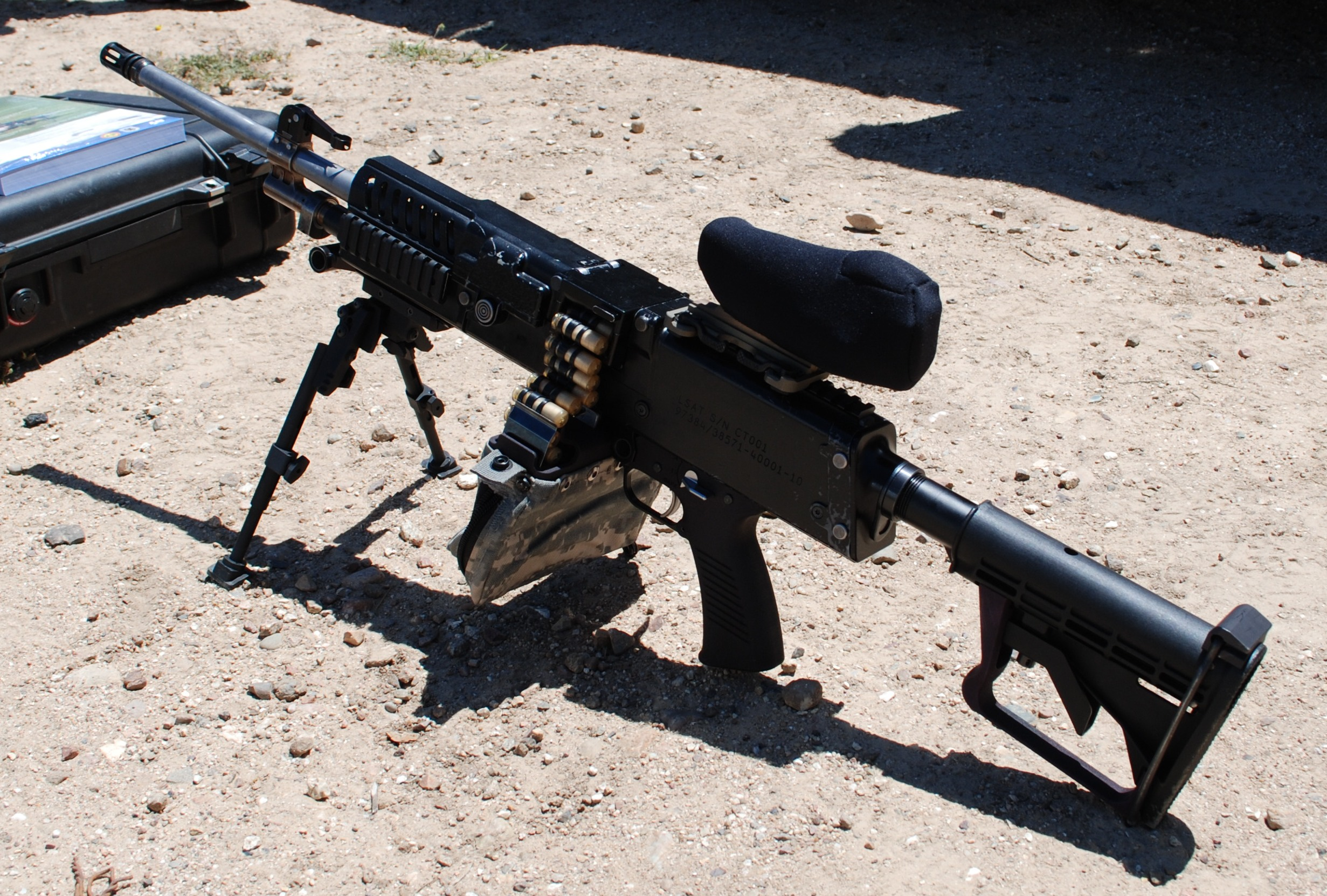 LSAT light machine gun, you can see very good the new caseless ammunition